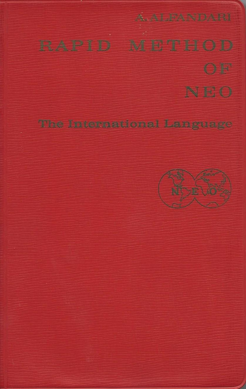 book cover of "Rapid Method of Neo", 1967